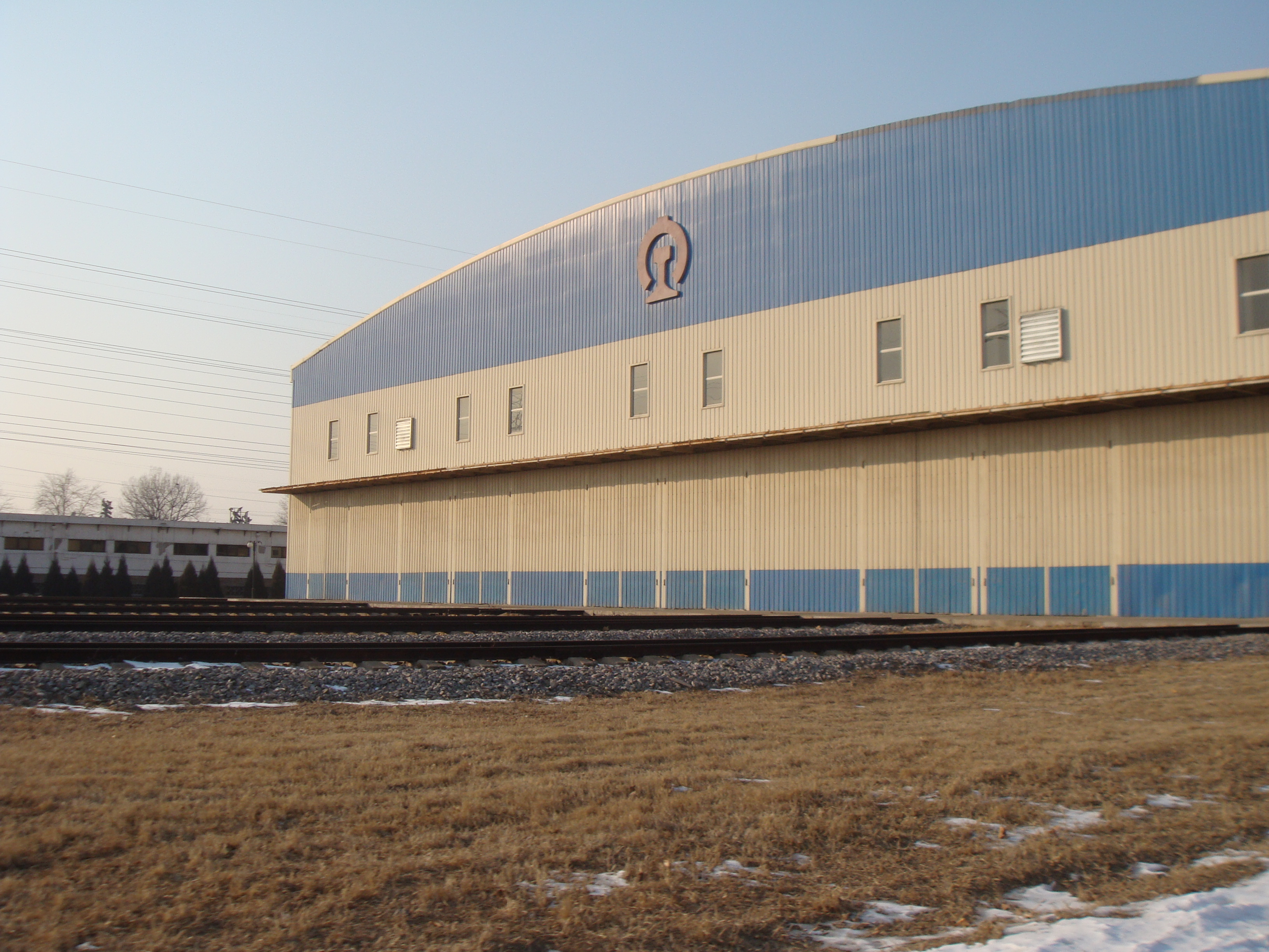 The locomotive exhibition hall of China Railway Museum.